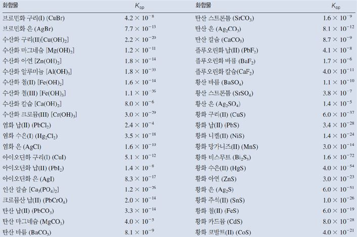 Solubility table